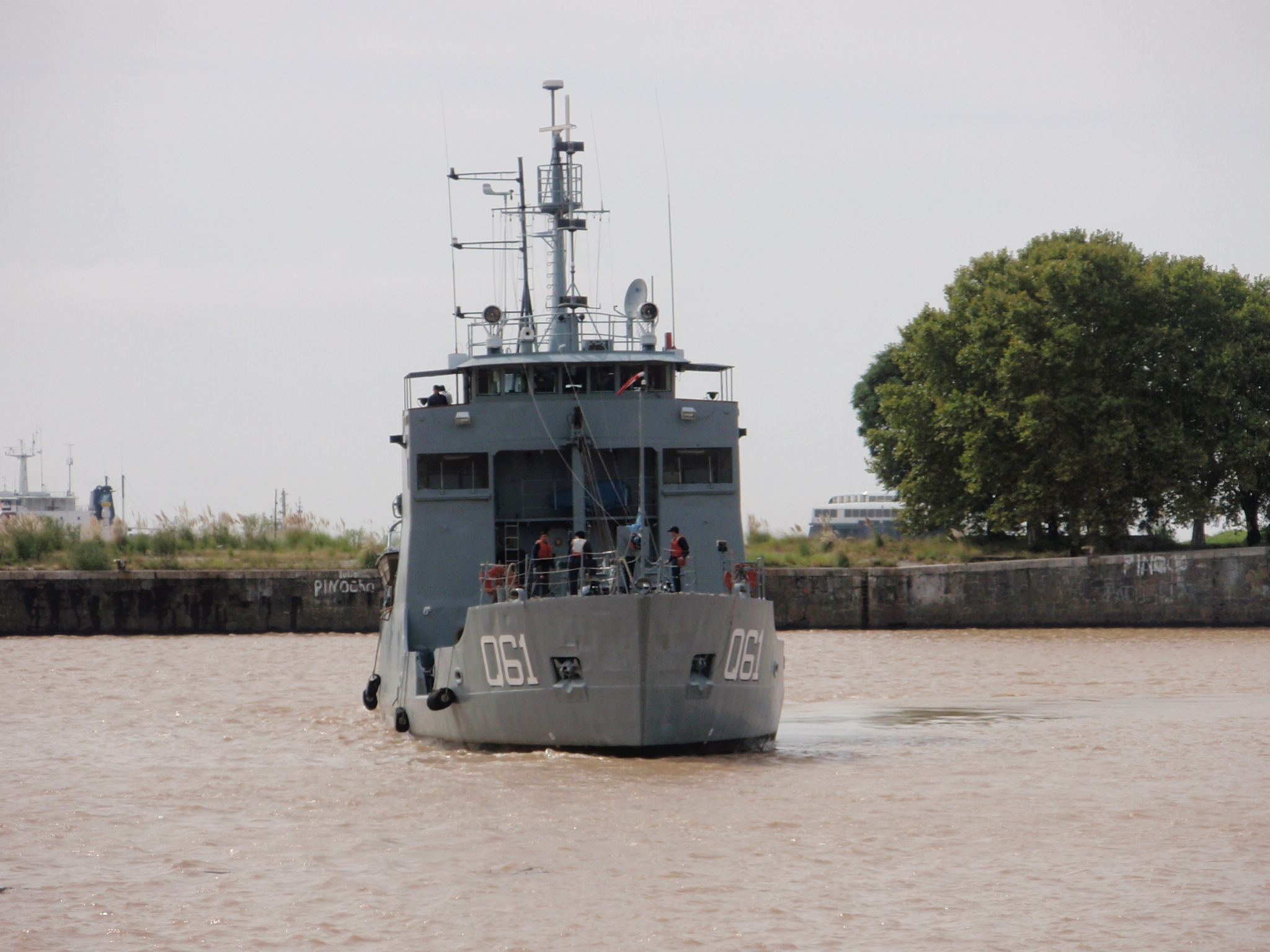 ARA Ciudad de Zárate